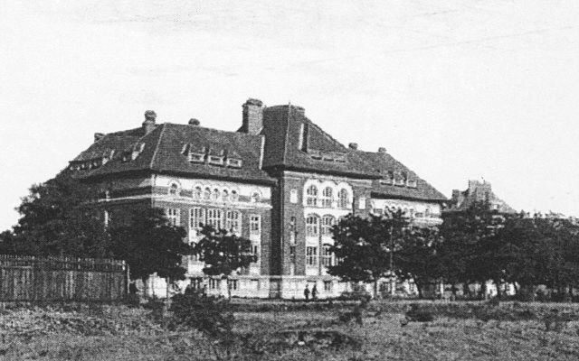 The first building of the University Politehnica Timişoara, 1923.